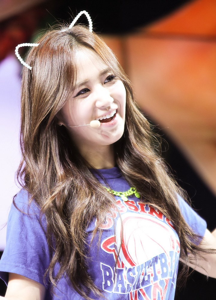 Yuri at LG Cinema 3D World Festival on April 7, 2013.